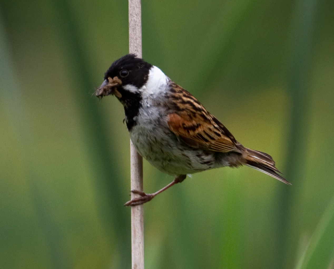 This pair of Reed Buntings were busy bringing back insects to their nest. Unfortunately, this was well hidden so I couldn't actually see them feeding any chicks.